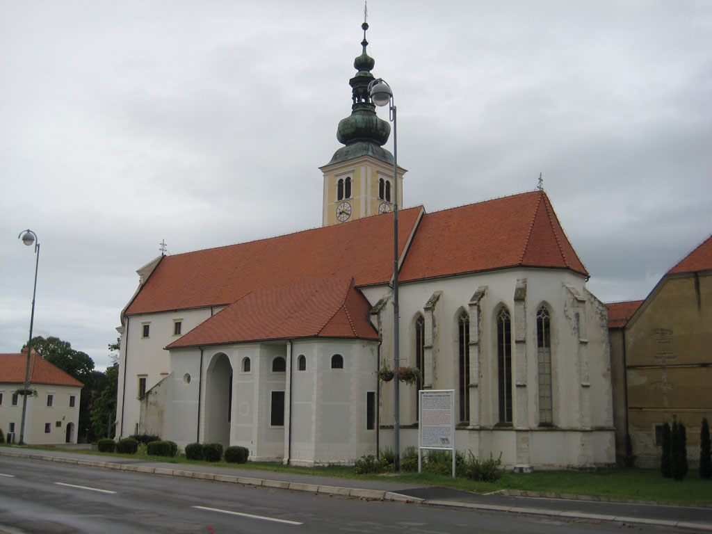 The Paulist monastery in Lepoglava